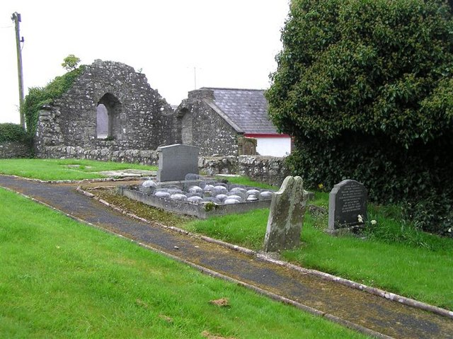 Carnteel Church. Another view from within the site, showing a few of the headstones in the graveyard, some of which have inscriptions dating from the late 1600s